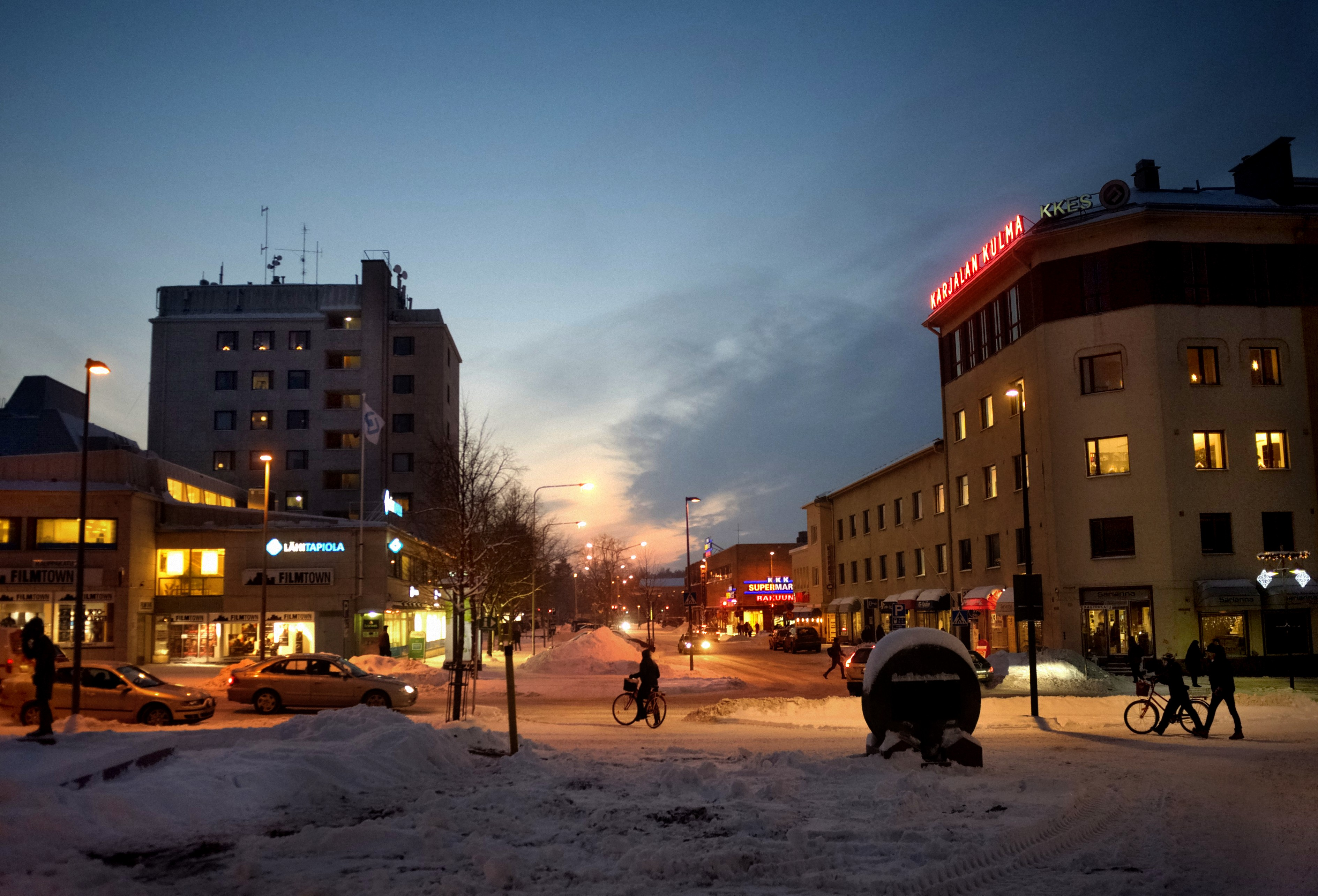 "Karjalan kulma" in Lappeenranta, Finland